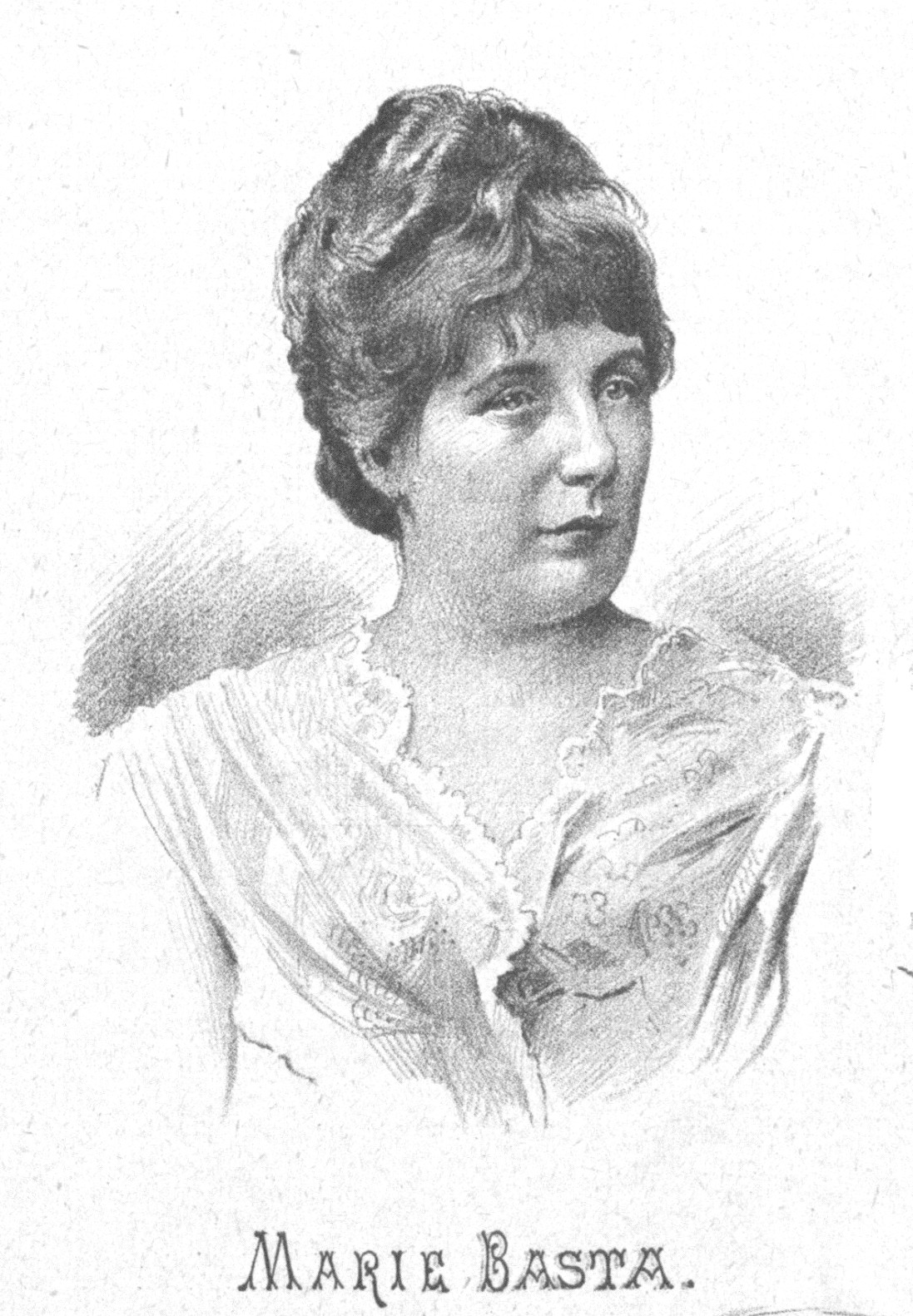 Portrait of Marie Basta (1856-??), German opera singer.